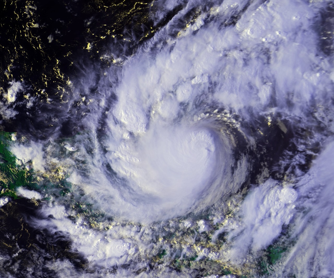 Hurricane Keith weakening on October 1 at 2225 UTC. This image was produced from data from NOAA-14, provided by NOAA. The storm's maximum sustained winds were around 125 mph.